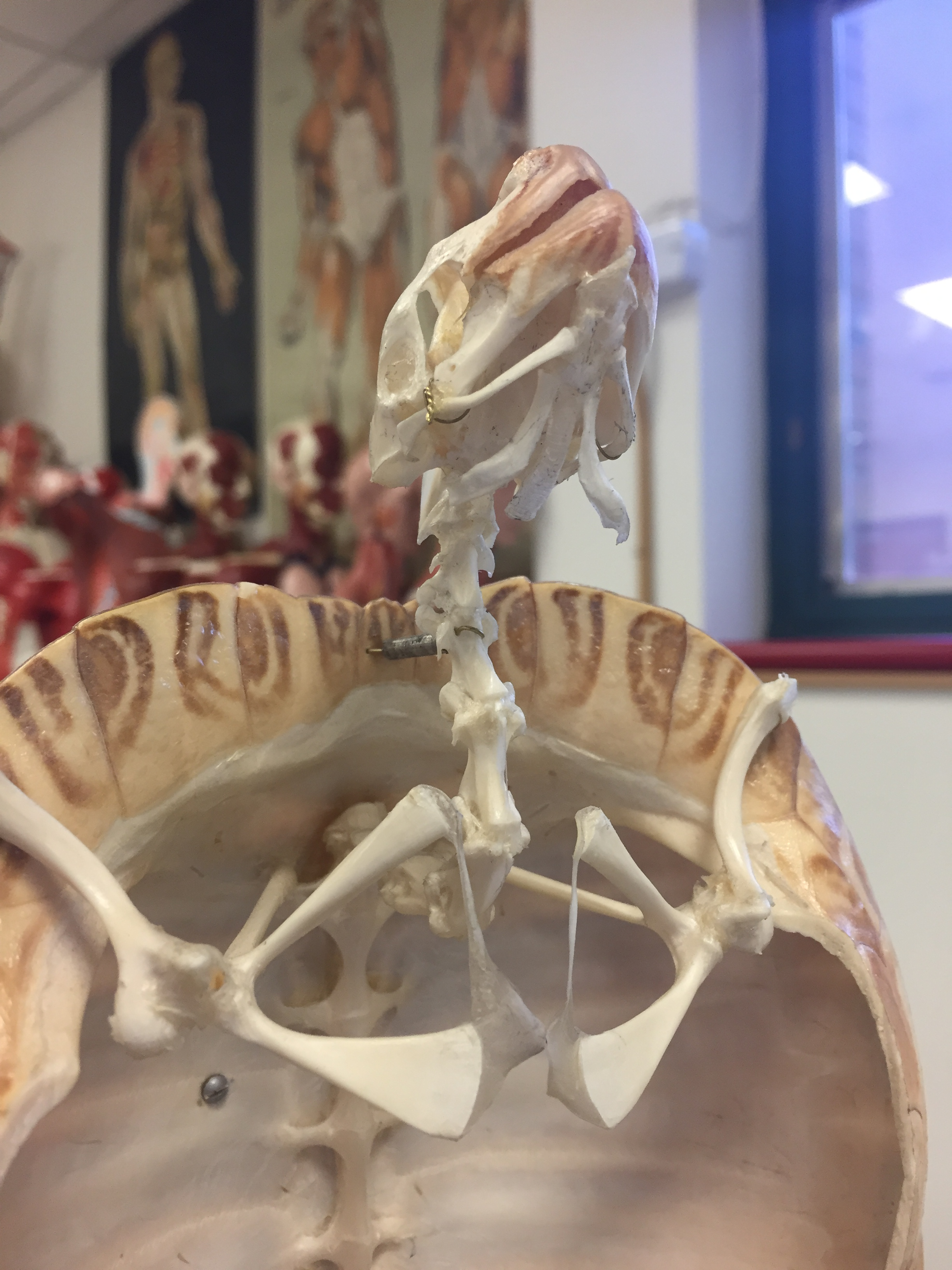 Ventral view of Cryptodira cervical vertebrae